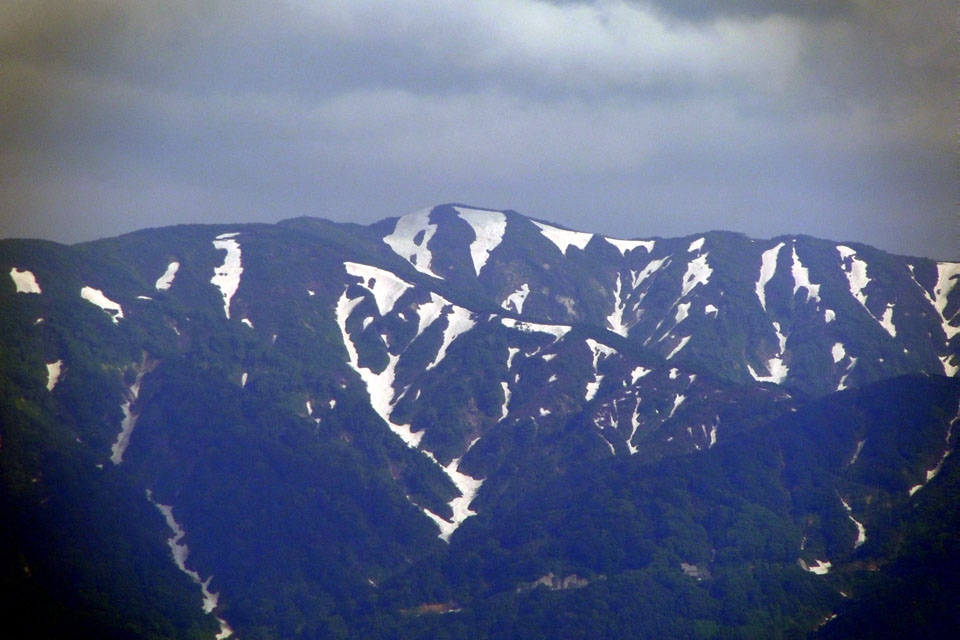 Sogatake in the period of the "snow shape"